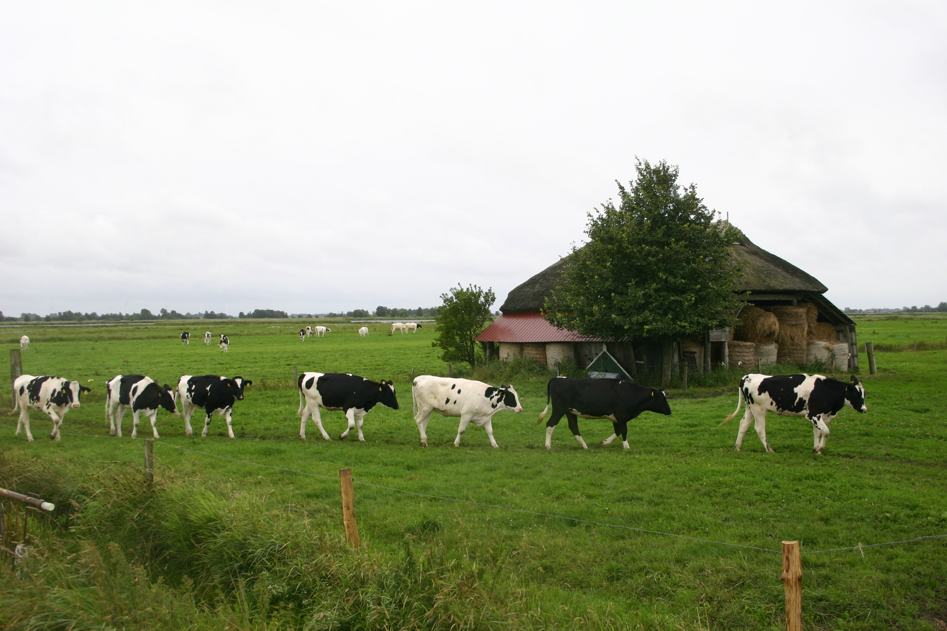 A row of cows in the community of Südbrookmerland, district of Aurich, East Frisia, Germany